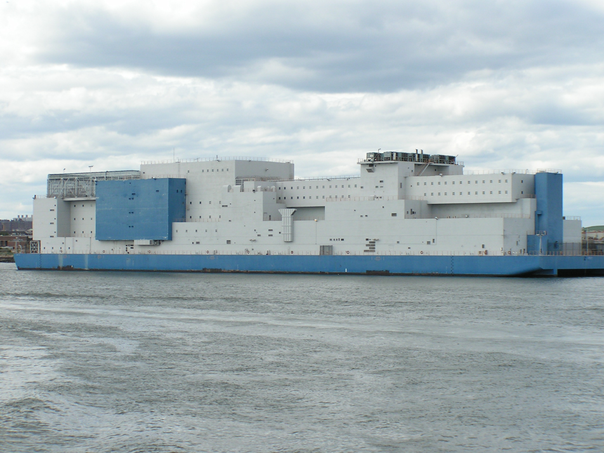 Vernon C. Bain Correctional Center from the Long Island Sound in East Bronx, New York